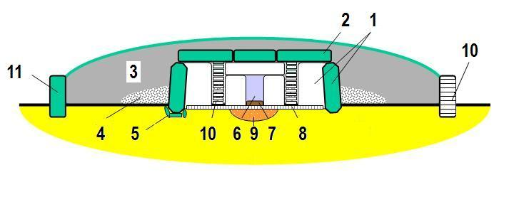 Diagram of typical Nordic megalithic structure